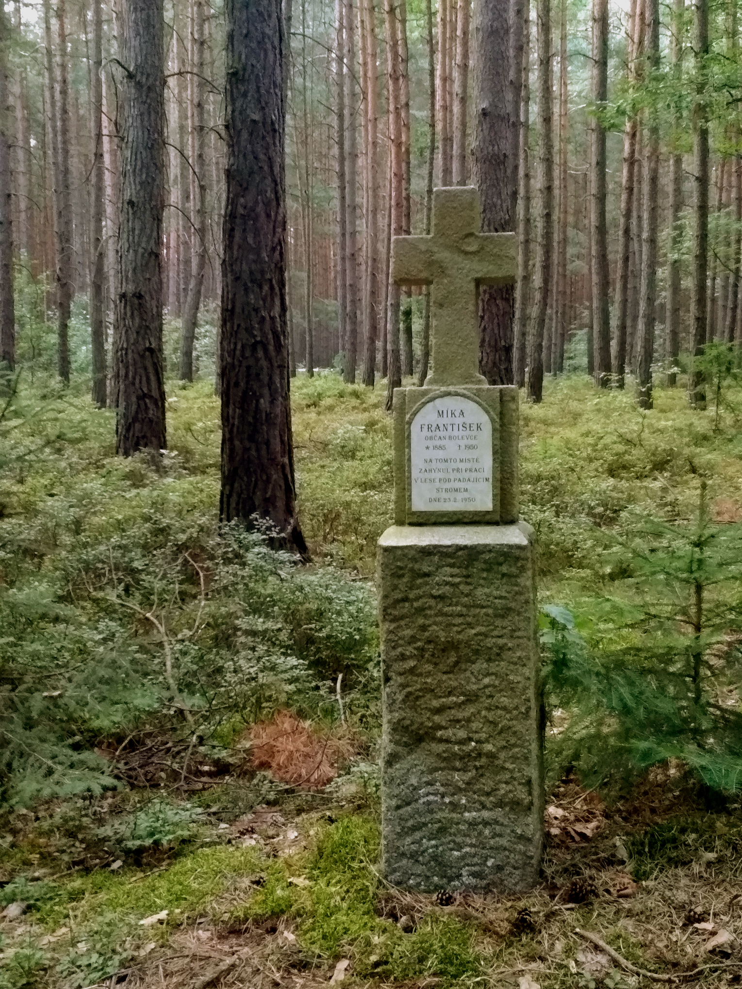 Small monument cross in Bolevec (Pilsen), erected for a lumberjack killed by falling tree in 1950.